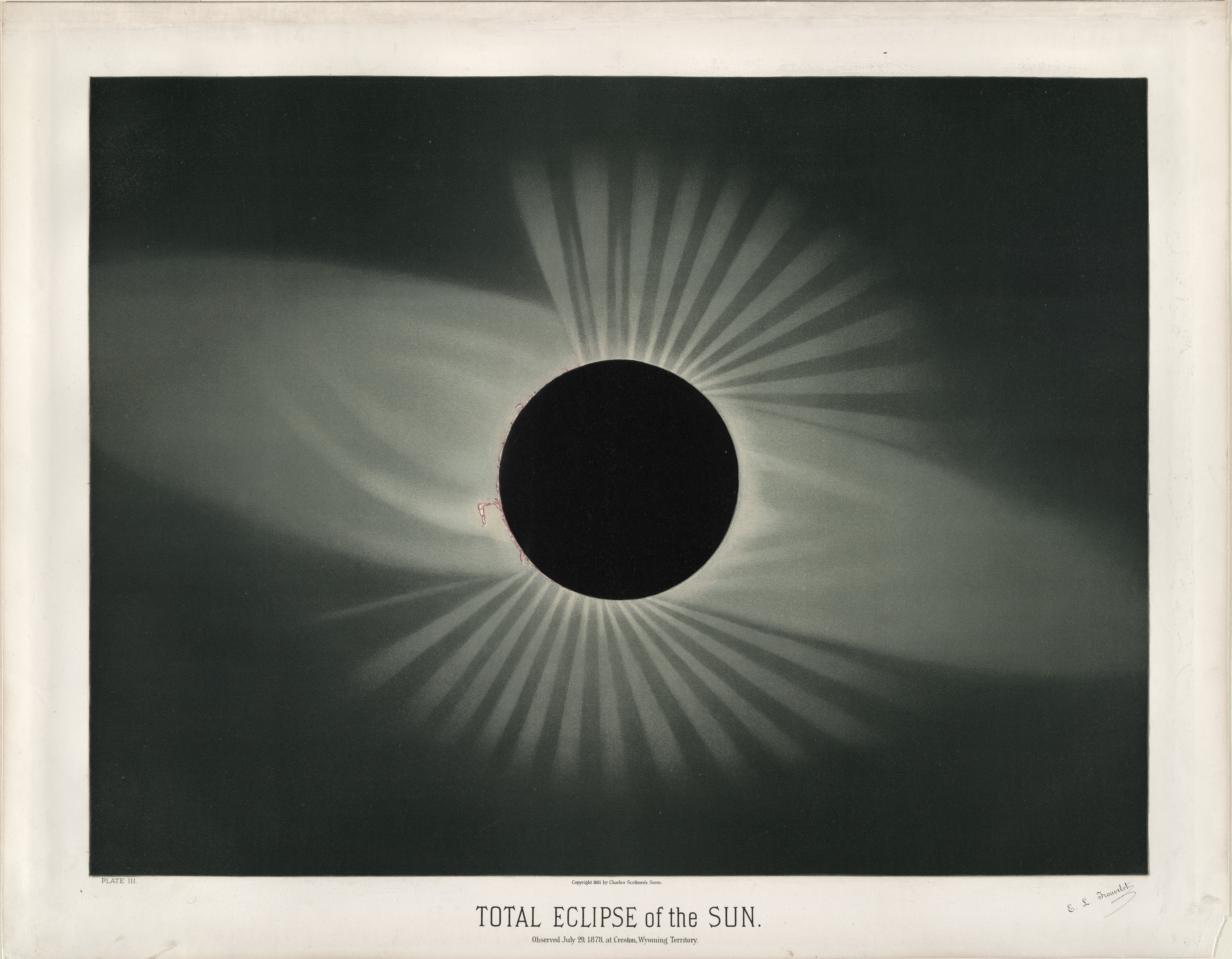 Total eclipse of the sun. Observed July 29, 1878, at Creston, Wyoming Territory. (Plate III from The Trouvelot Astronomical Drawings 1881-1882)